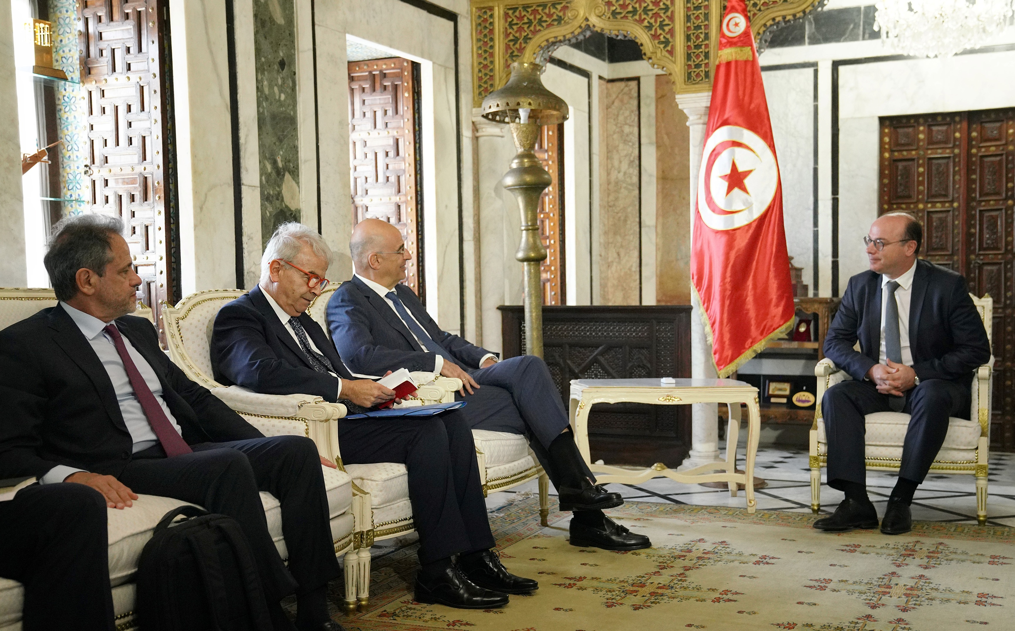 Greek Foreign Minister, Nikos Dendias, meets Tunisian Prime minister, Elyes Fakhfakh.